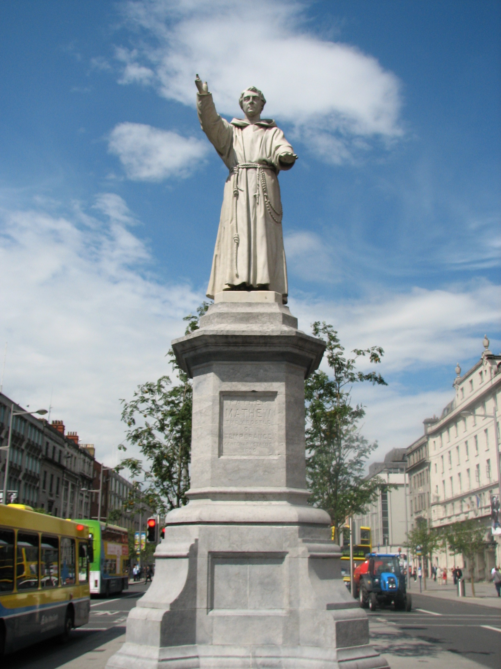 Father Mathew 1790-1856 (The Temperance Priest) Dublin’s O’Connell Street.